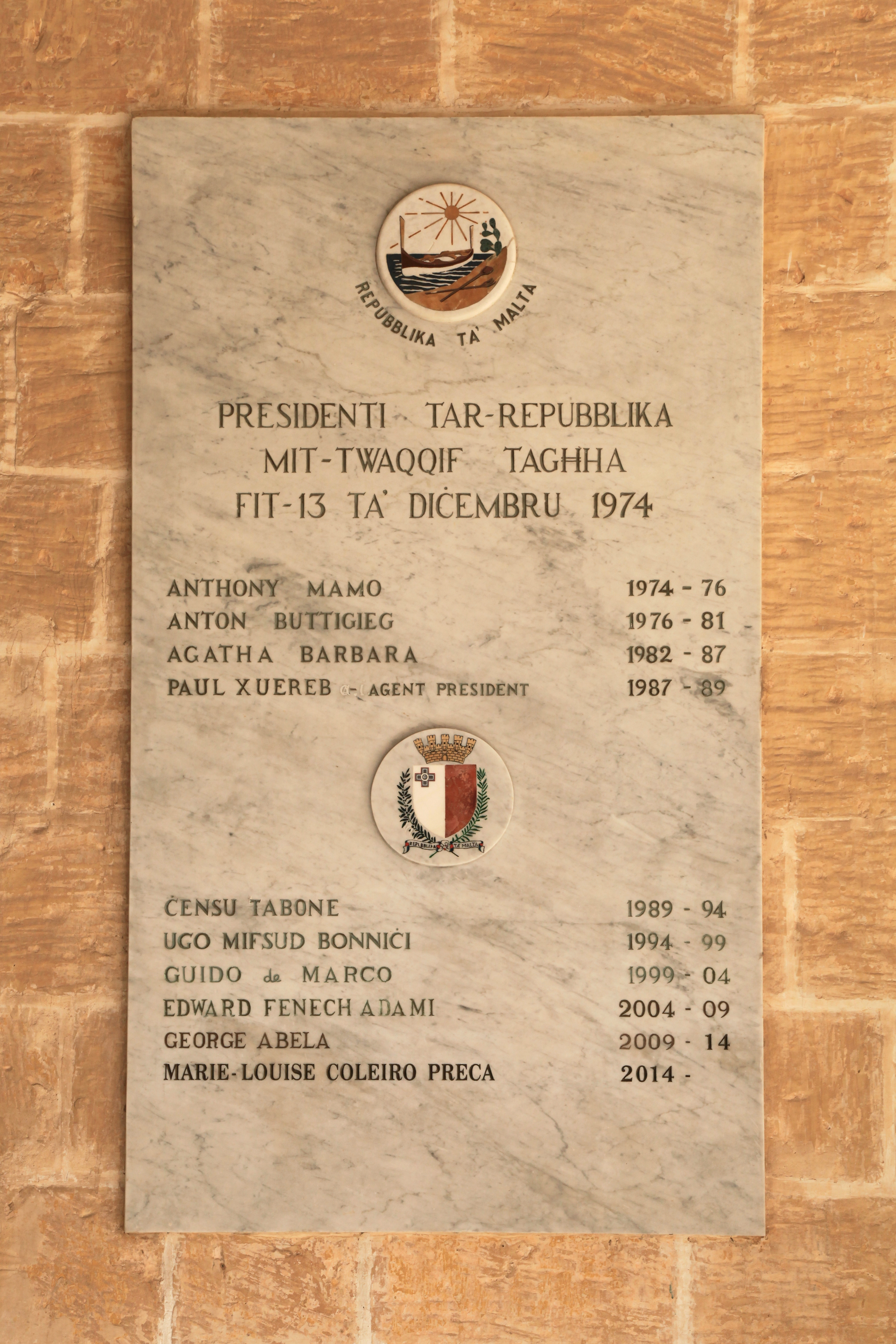 San Anton Palace, Triq Sant Antnin / San Anton Gardens in Attard, Malta